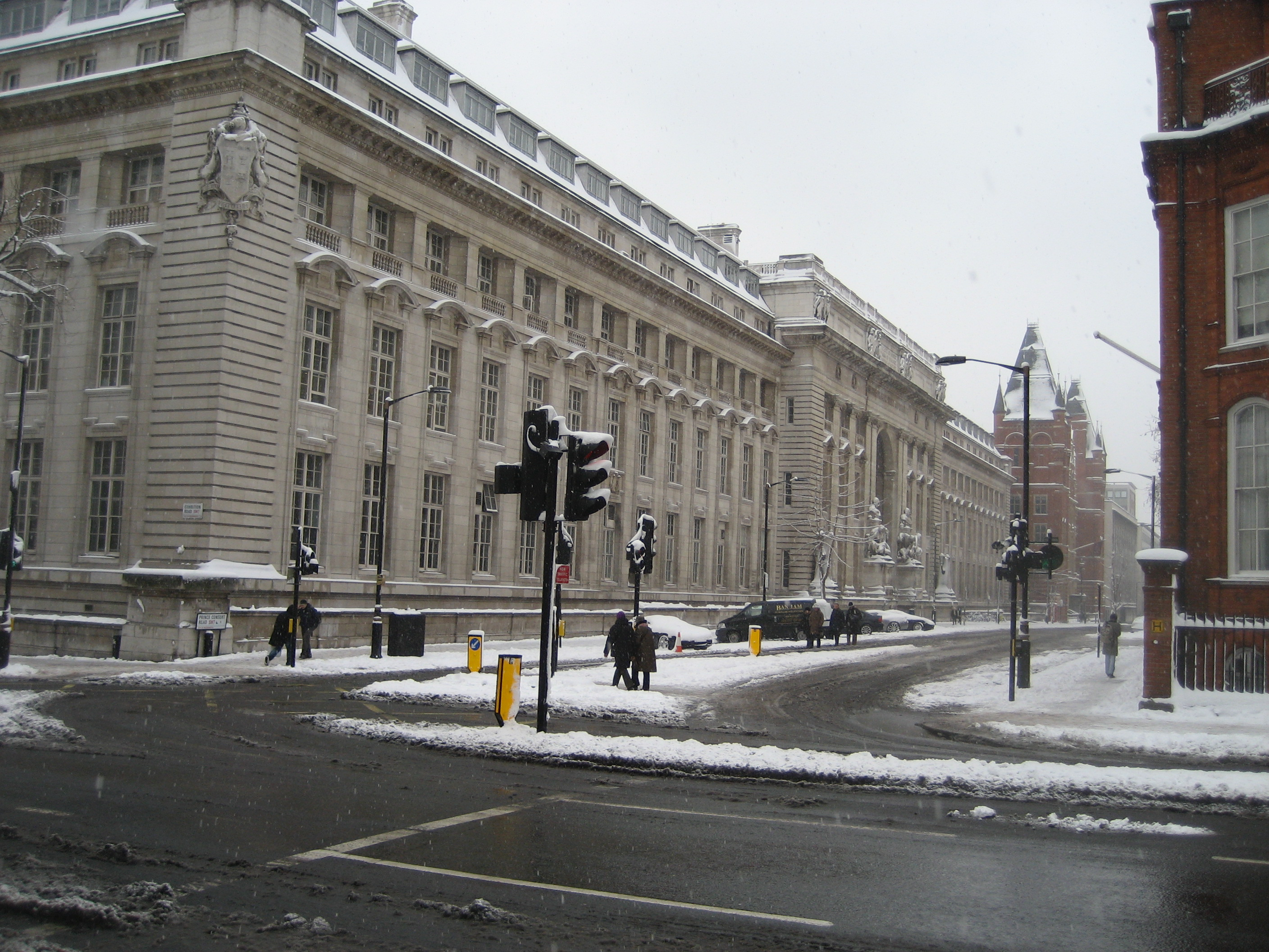 Materials Department of Imperial College London viewed from Exhibition Road.